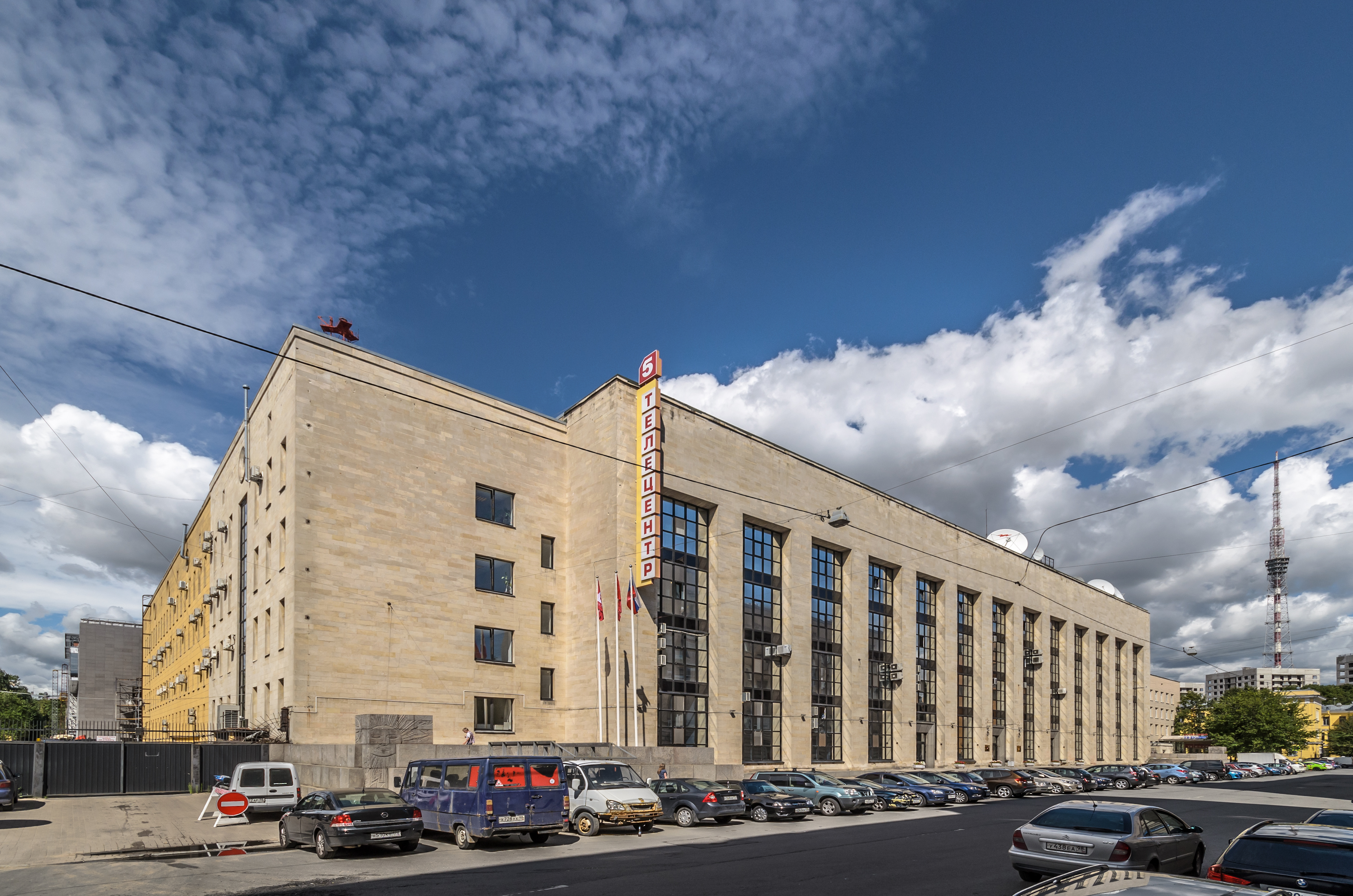 Television Broadcasting Center of Saint Petersburg. "Petersburg - 5th Channel" Broadcasting Company headquarters. Chapygina street, building 6.